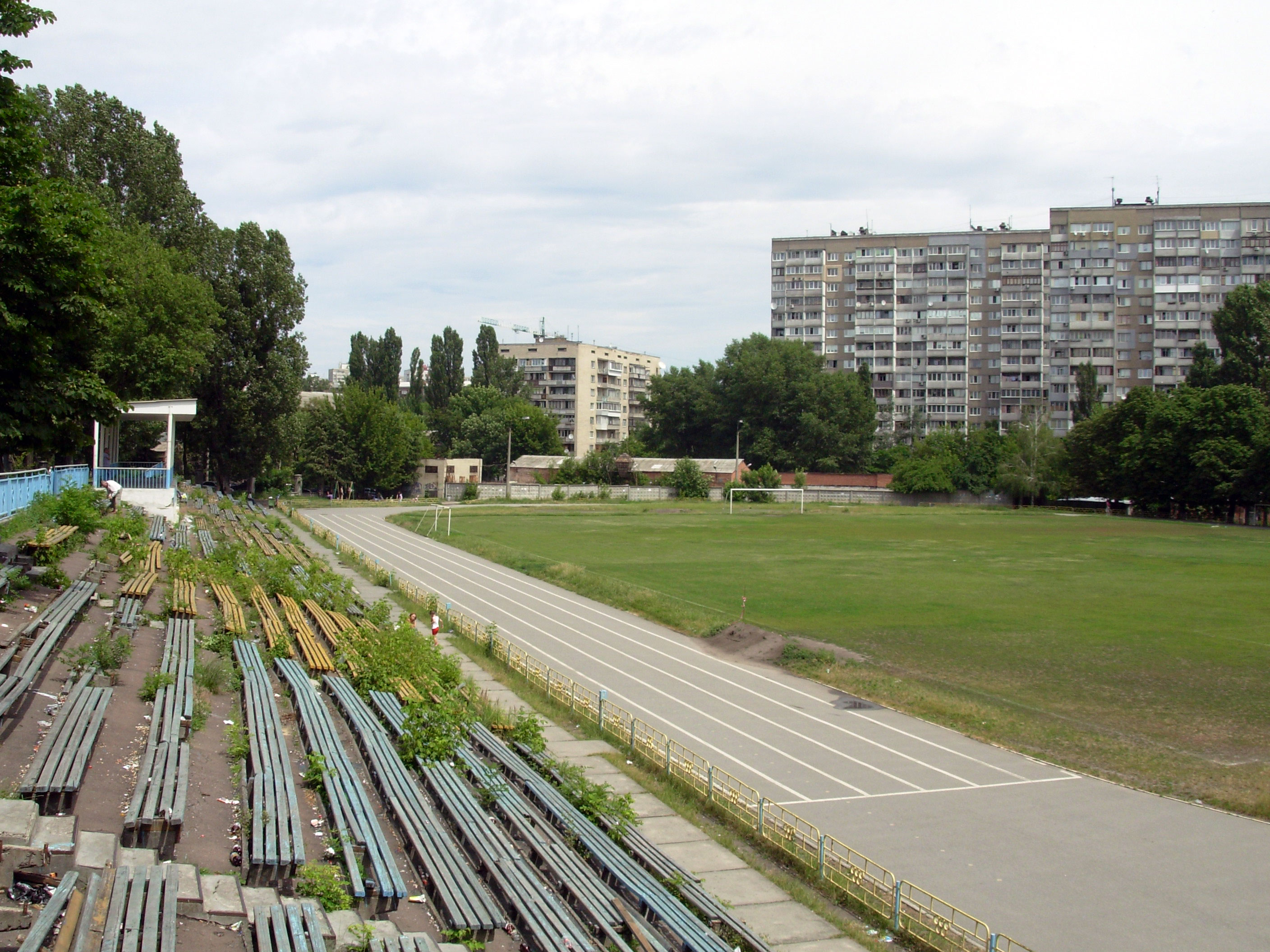 Start Stadium in Kyiv